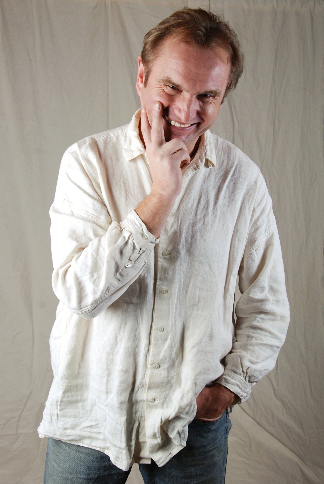 Picture of Helmut Vorndran. Send on request to illustrate the german Wikipedia article.